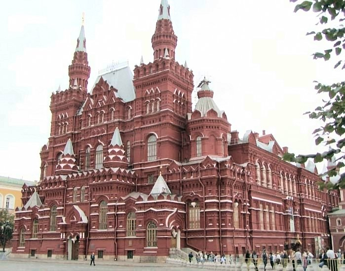 Photo of Moscow State Historical Museum